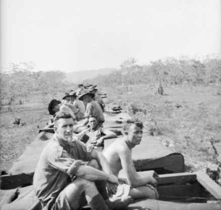 Troops from the 2/4th Machine Gun Battalion travel north on a troop train